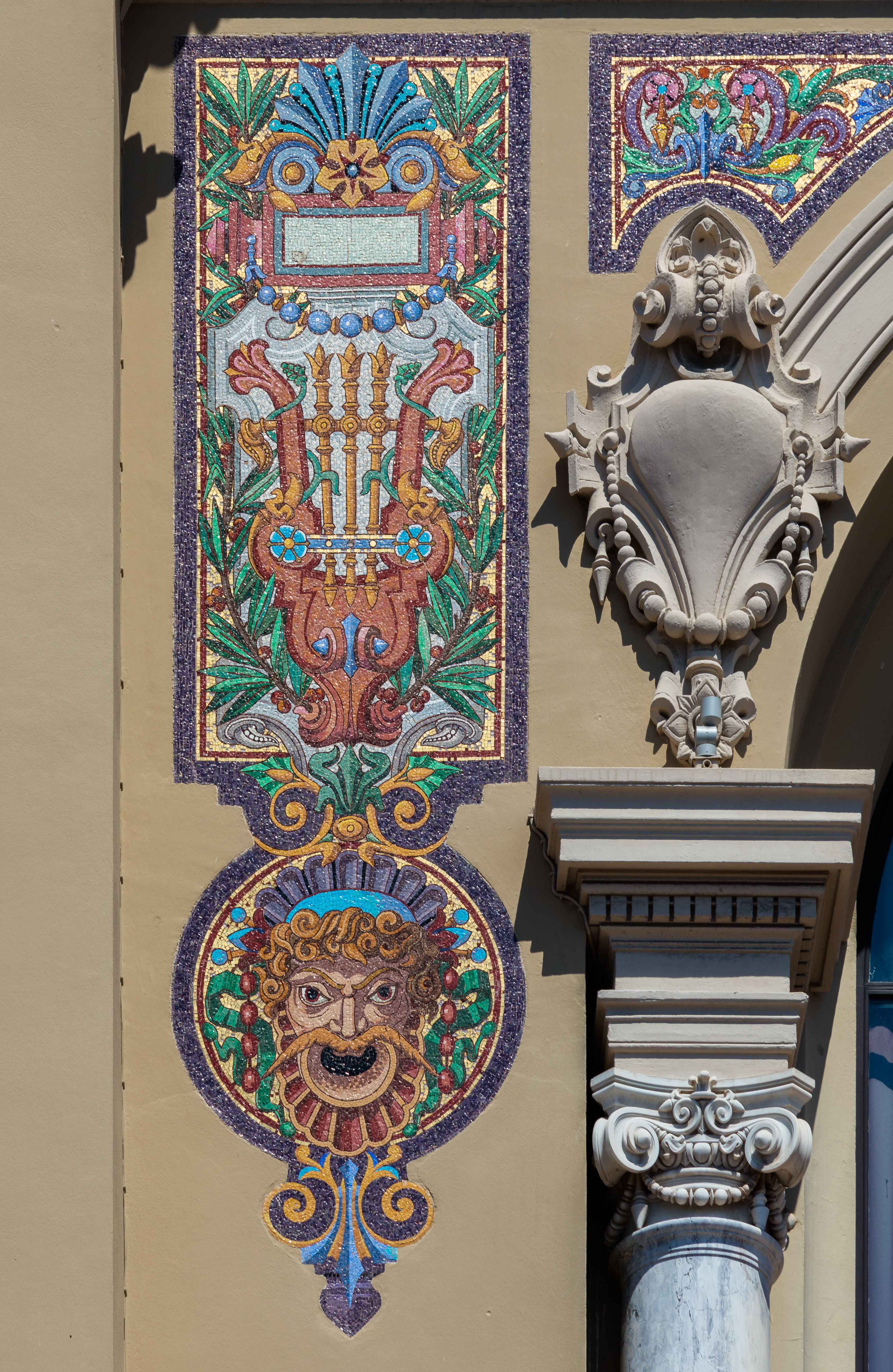 Monte Carlo Casino, Monaco